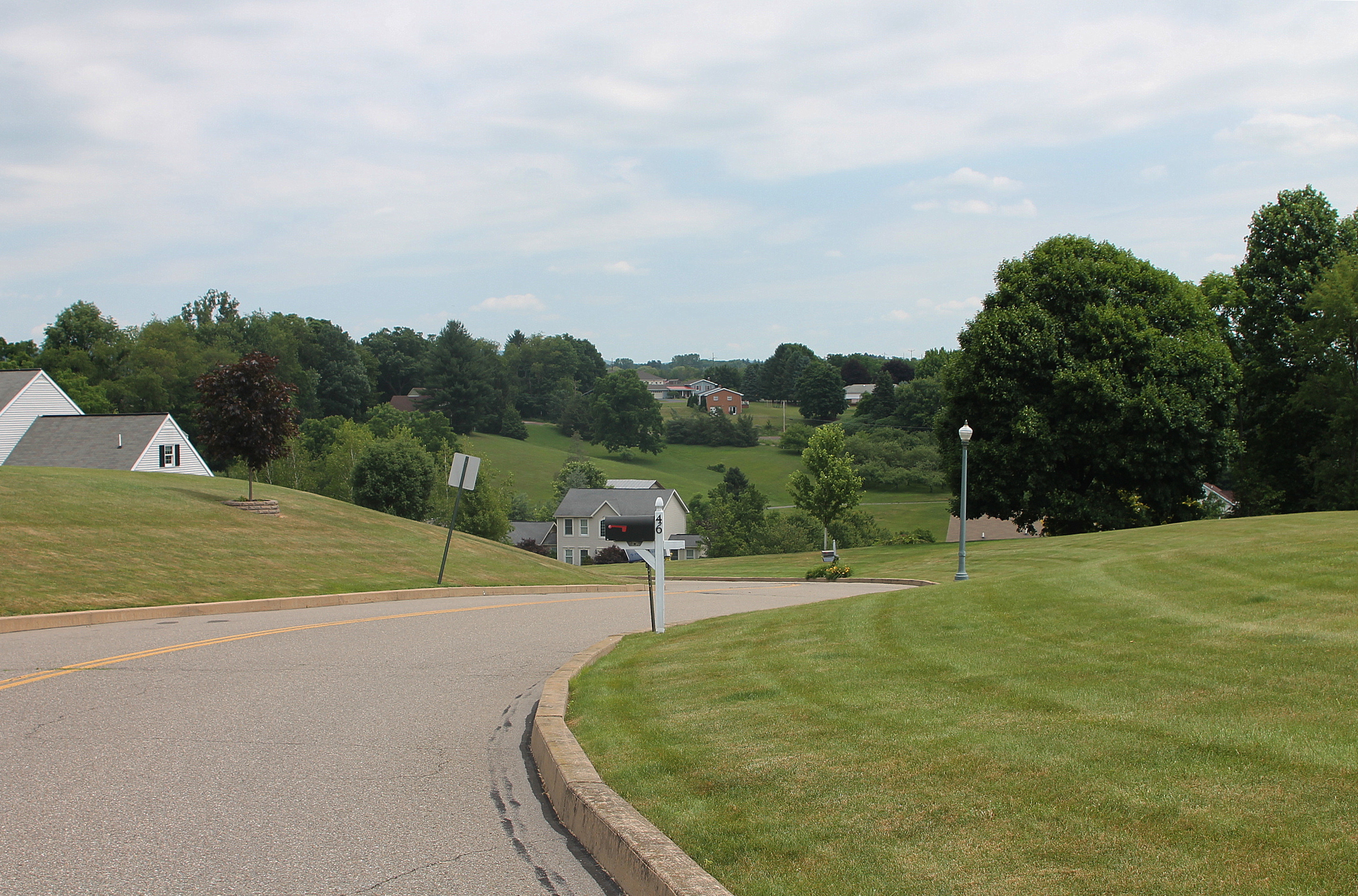 The Meadowbrook development and surrounding areas, Scott Township, Columbia County, Pennsylvania.